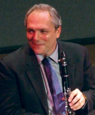 Ken Peplowski at Oregon Festval of American Music 2007.